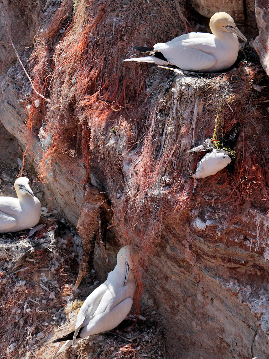 Northern Gannet